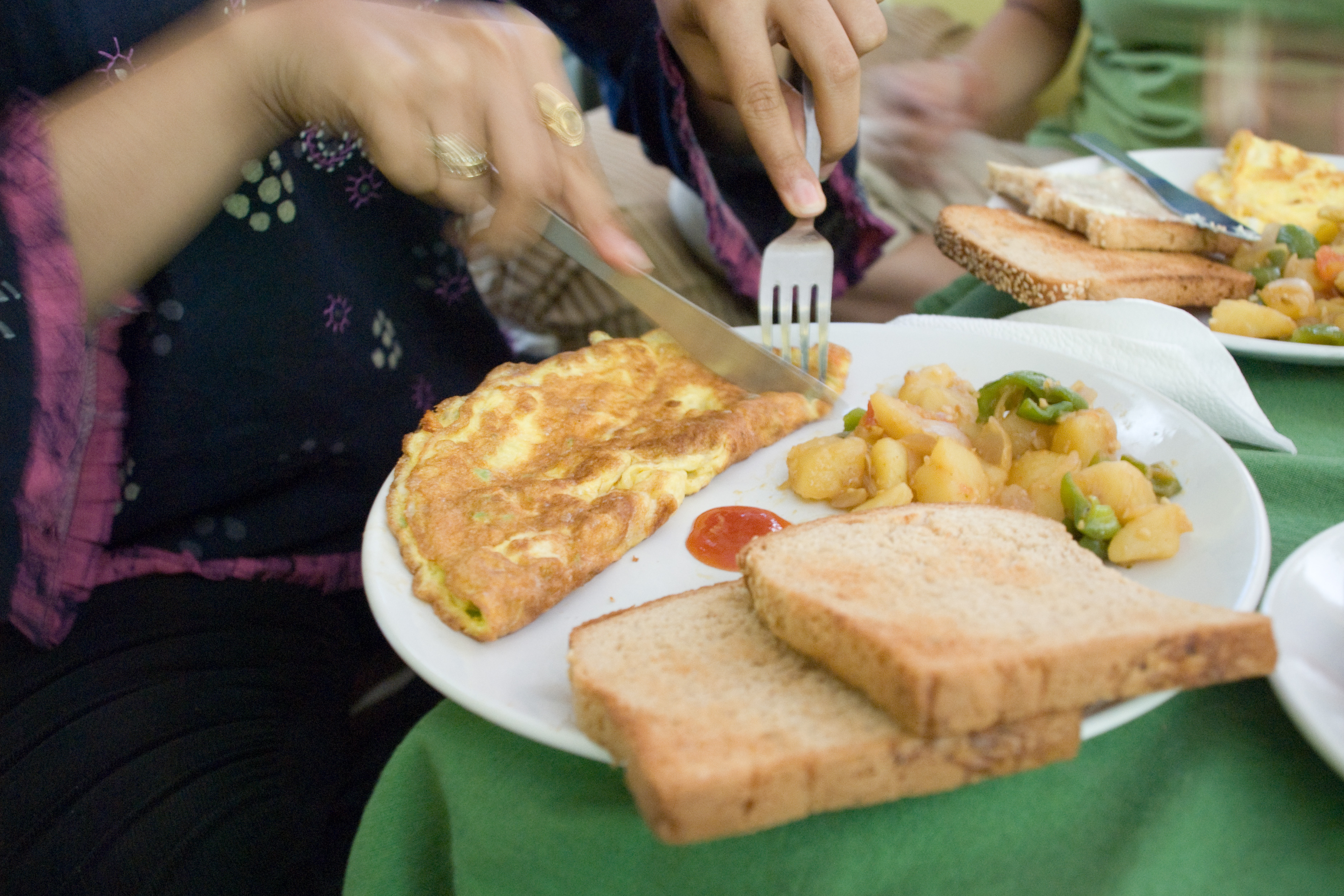 A Hearty Breakfast